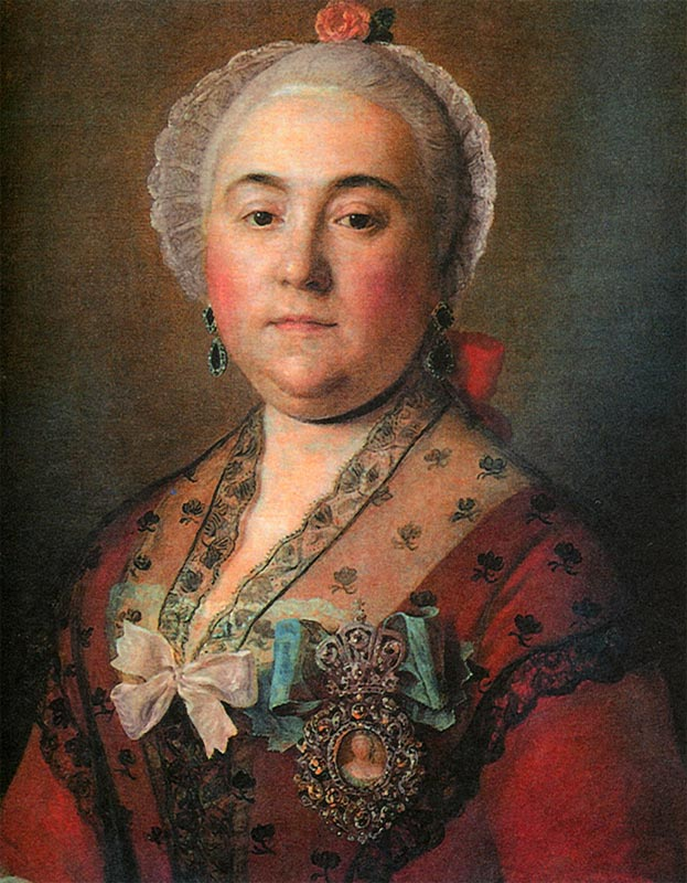 Portrait of Varvara Alexeevna Sheremeteva (1711-1767)